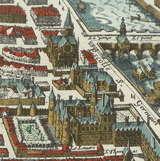 The Hôtel du Petit-Bourbon in Paris as depicted on the 1615 map of Mérian. The Petit-Bourbon is between the old Louvre at the bottom and the Church of Saint-Germain l'Auxerrois at the top.